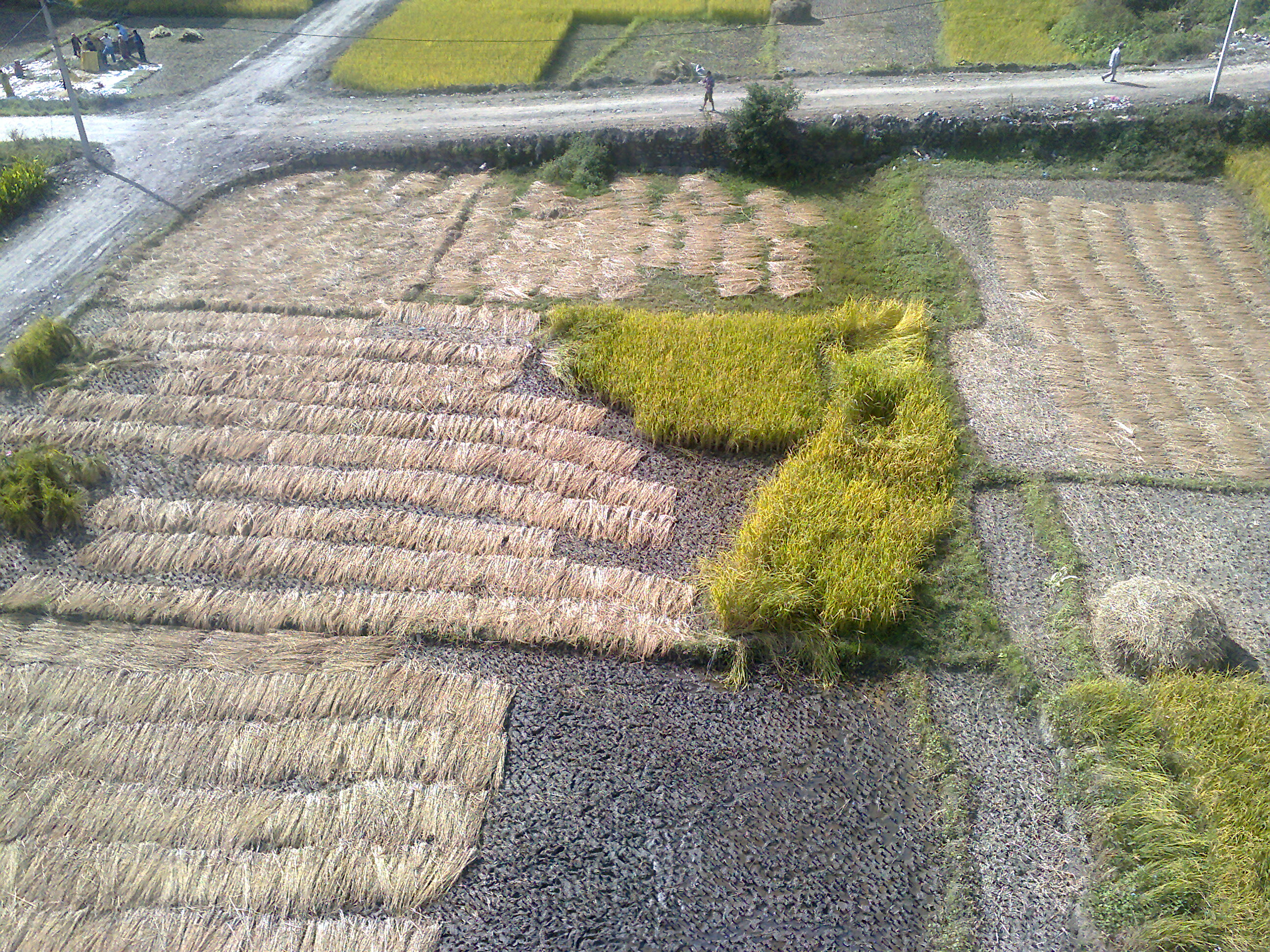 The paddy cultivation in Bode.